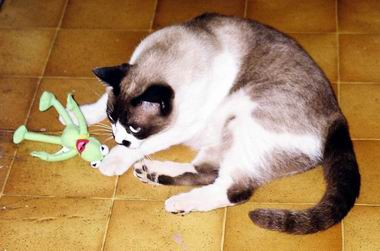 Charlie: "It's my! All my!!!"